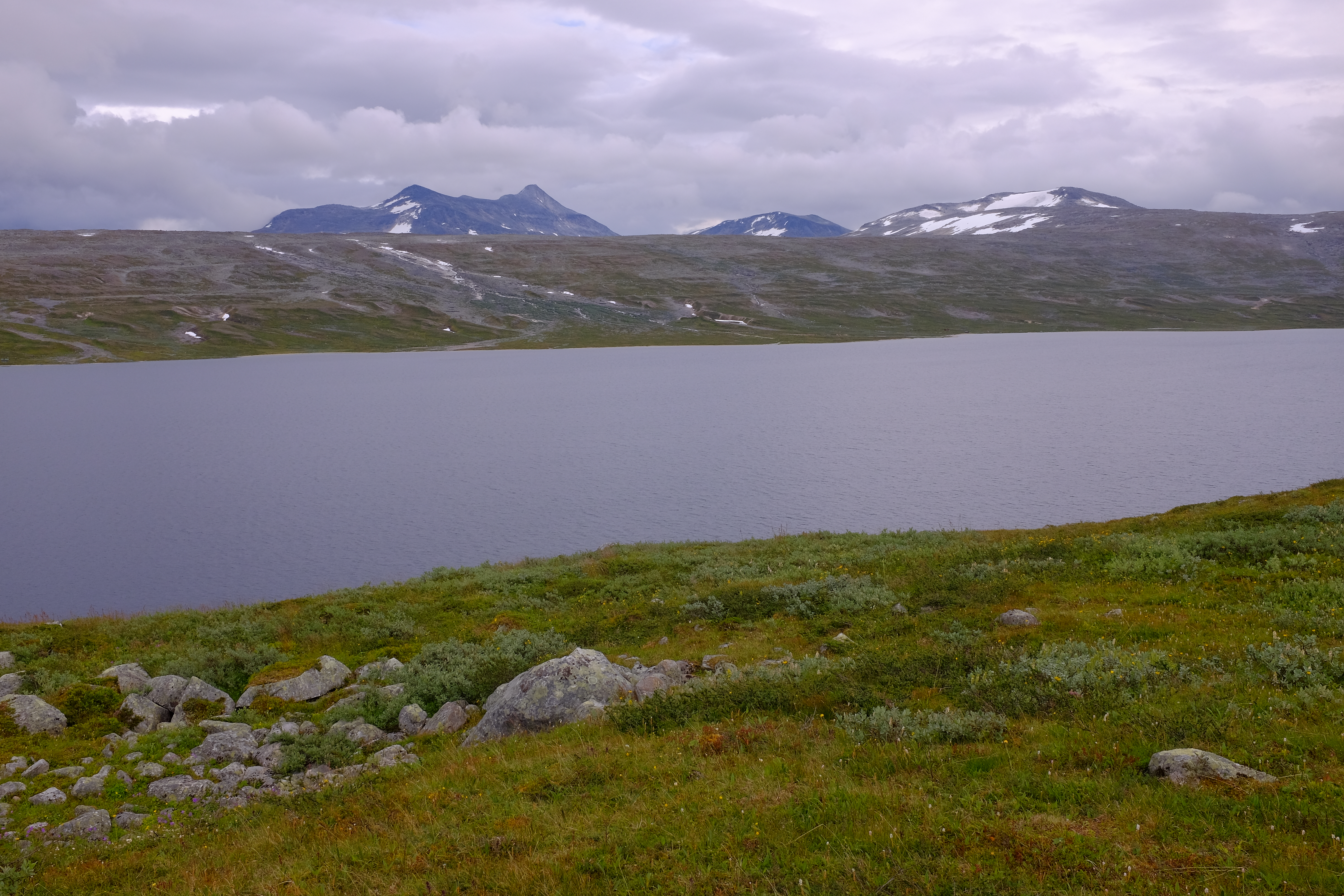 Nordre Bjøllåvatnet (sami: Bajep Ruovdajávrre) lake and Ørfjellet peak in the background, Saltdal, Nordland, Norway.